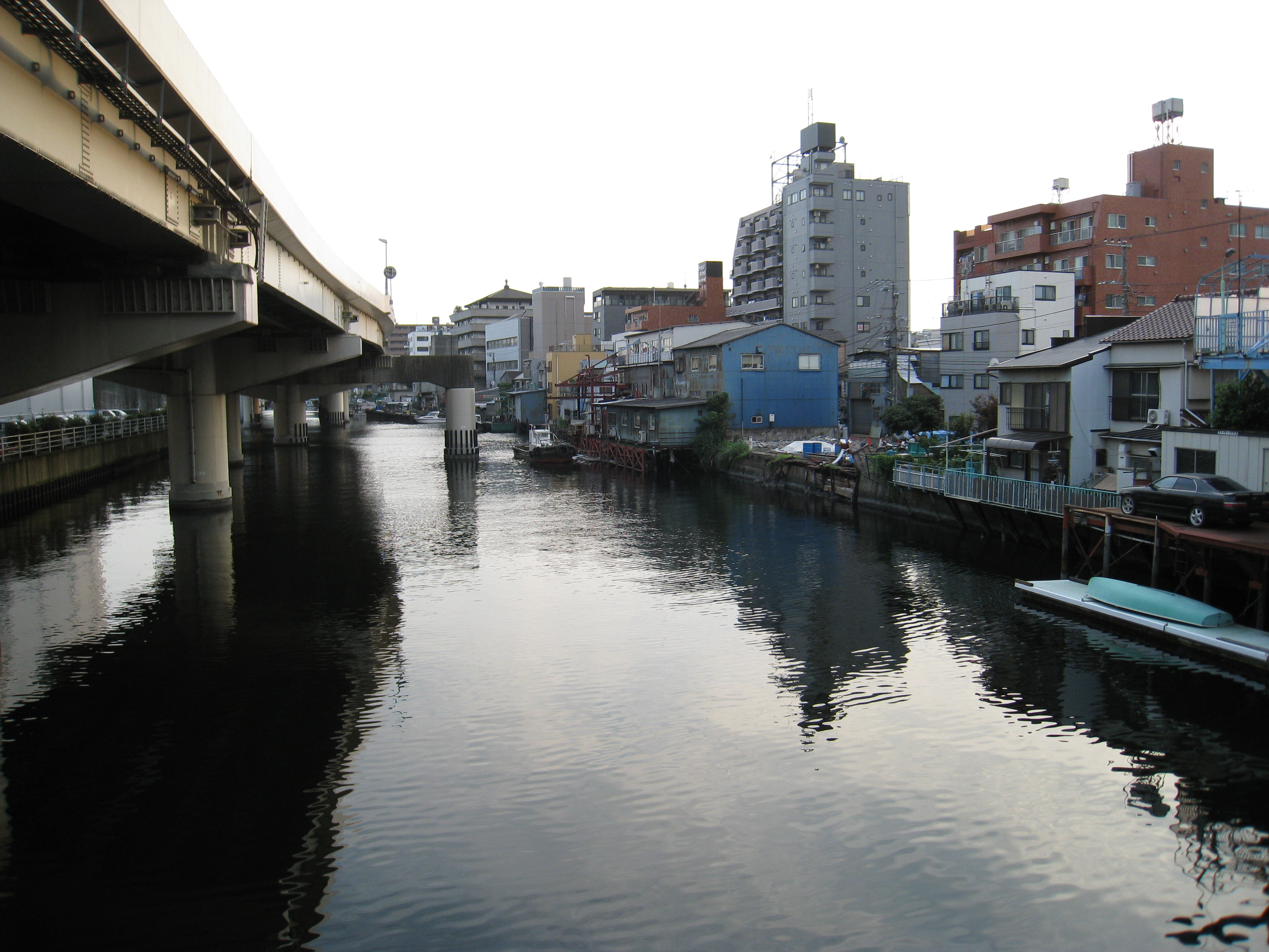 Irieriver.Kanagawa-ku,Yokohama-Shi,Japan